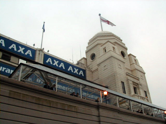 One of the former Twin Towers at Wembley Stadium